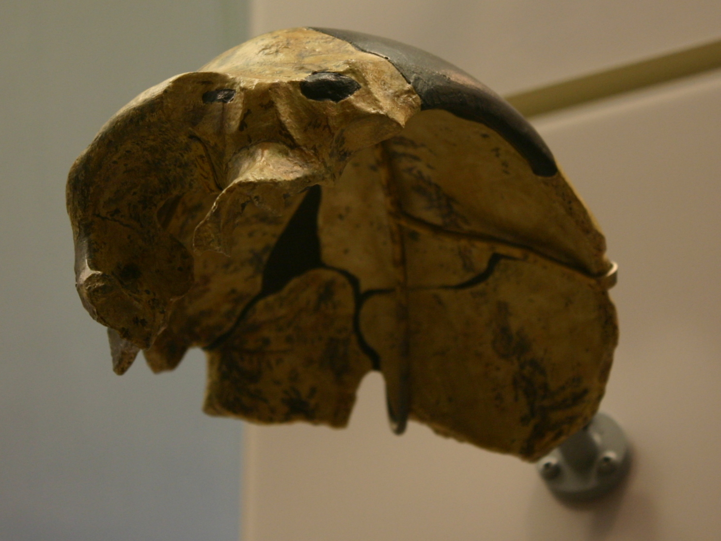 Taken at the David H. Koch Hall of Human Origins at the Smithsonian Natural History Museum.